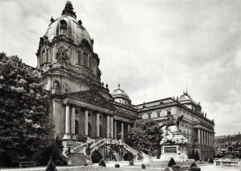 The Royal Castle of Budapest.